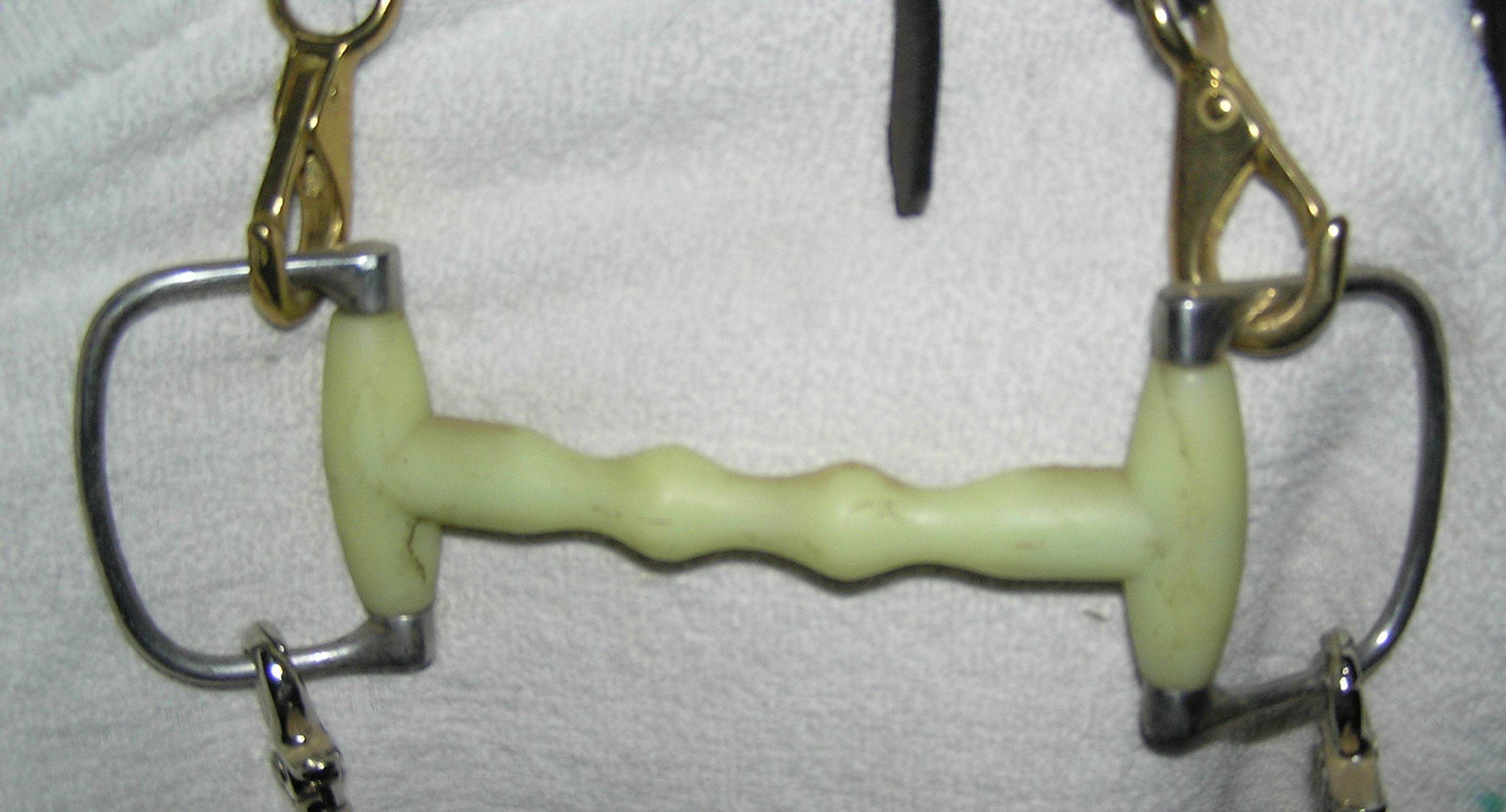 Mullen mouth snaffle, synthetic mouthpiece over flexible cable inner core, D-Ring bit ring